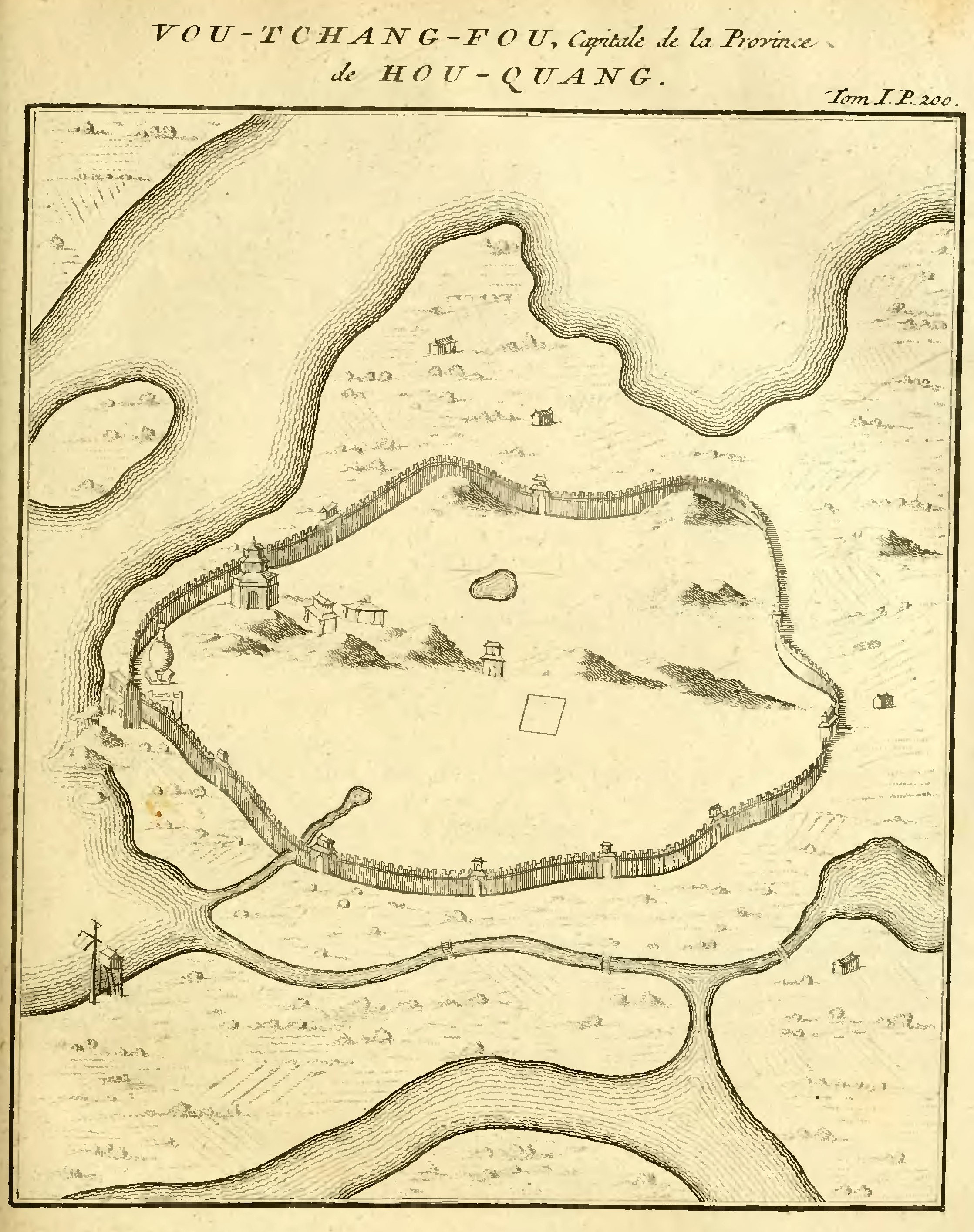 An engraving from La Haye's edition of Du Halde's Description of China, Vol. I, p. 200. A map of Wuchangfu (武昌府, Wǔchāngfǔ), then capital of the viceroyalty of Huguang (湖廣, Húguǎng) and now the Wuchang District of Wuhan, Hubei.